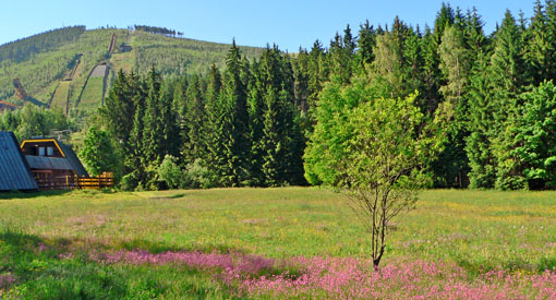 Natural monument Anenské údolí, Harrachov, Semily District, Liberec Region, Czech Republic.